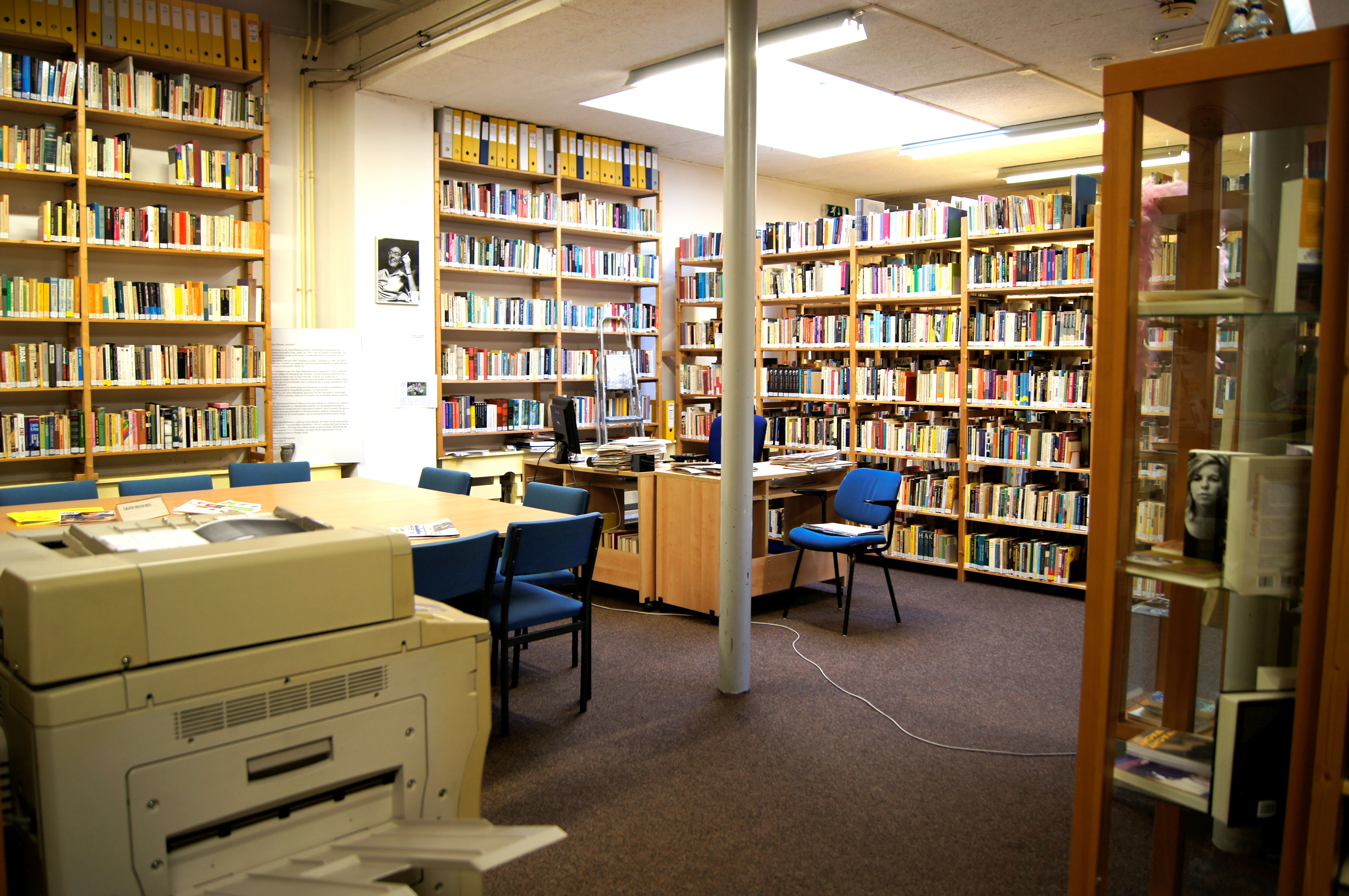 Anna Blamanhuis, Leeuwarden (IHLIA leeszaal)